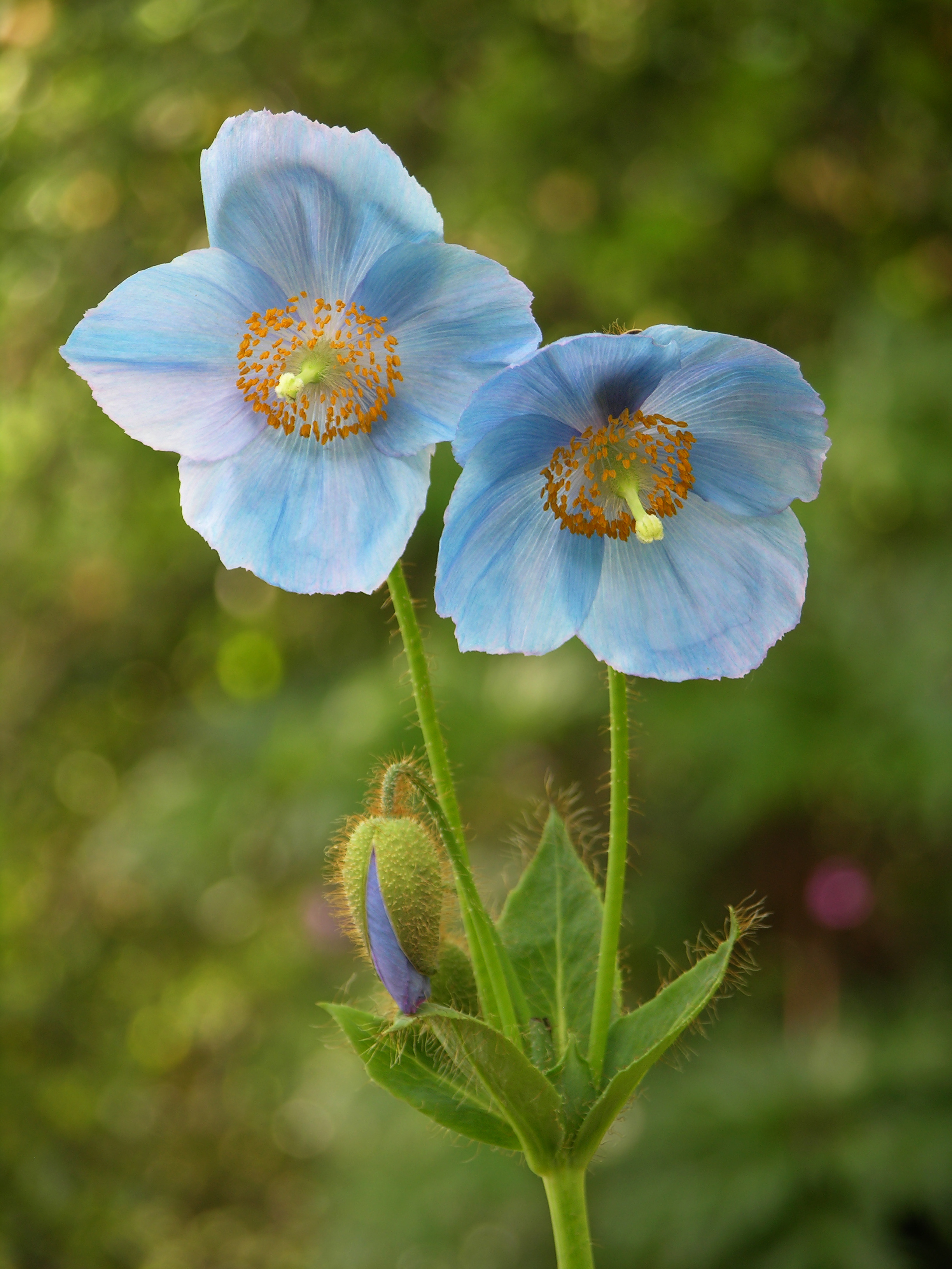 Picture of two Blue Poppy (Meconopsis en sp.) flowers. Photo taken in the North side of the Teacup Garden at the Chanticleer Garden where it was species identified.